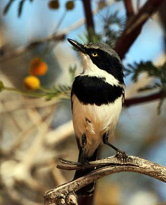 A male Pririt Batis North of Aggenys, Northern Cape, South Africa.